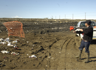 a Netgun fired by a USDA researcher at a refuse site in Barrow, Alaska, to safely capture wild birds to test for Avian Influenza.